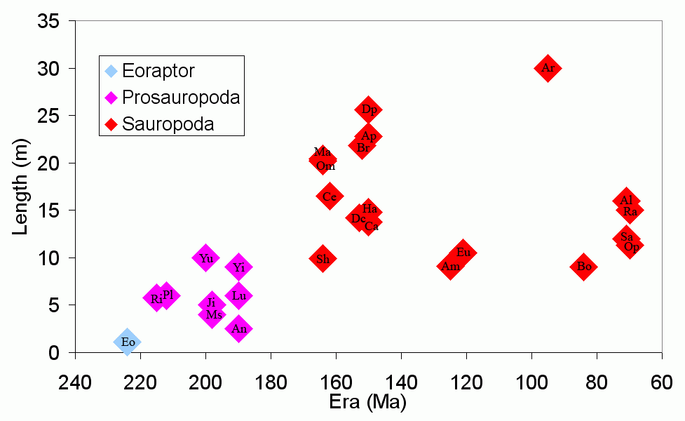 Sauropodomorpha Length. Eo Eoraptor, Ri Riojasaurus, Pl Plateosaurus, Yu Yunnanosaurus, Ms Massospondylus, Ji Jingshanosaurus, An Anchisaurus, Lu Lufengosaurus, Yi Yiminosaurus, Sh Shunosaurus, Om Omeisaurus, Ma Mamenchiasaurus, Ce Cetiosaurus, Dc Dicraeosaurus, Br Brachiosaurus, Eu Euhelops, Ap Apatosaurus, Ca Camarasaurus, Dp Diplodocus, Ha Haplocanthosaurus, Am Amargasaurus, Ar Argentinosaurus (approx.), Bo Bonitosaurus, Al Alamosaurus, Sa Saltasaurus, Ra Rapetosaurus, Op Opisthocoelicaudia